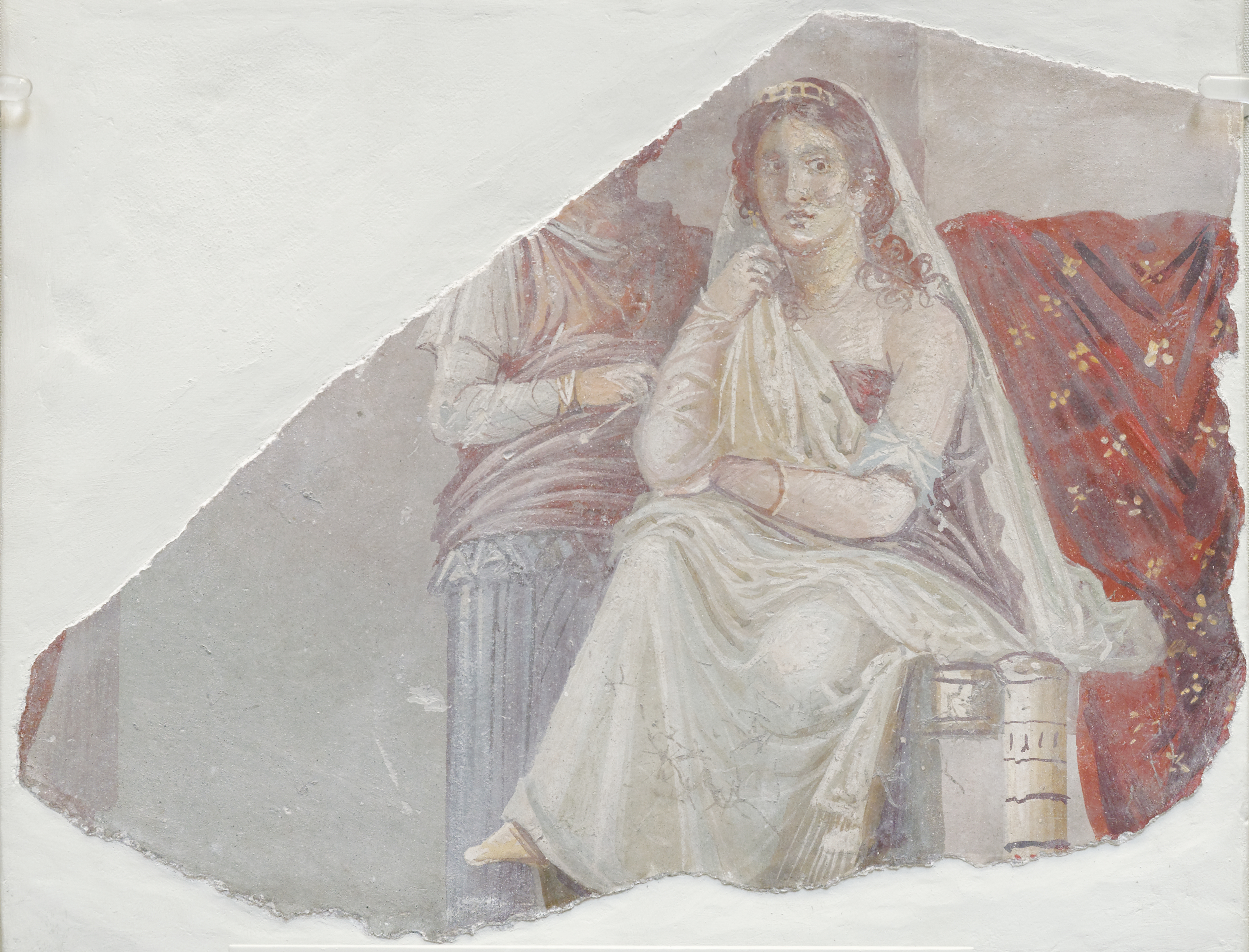 Phaedra with an attendant, probably her nurse.